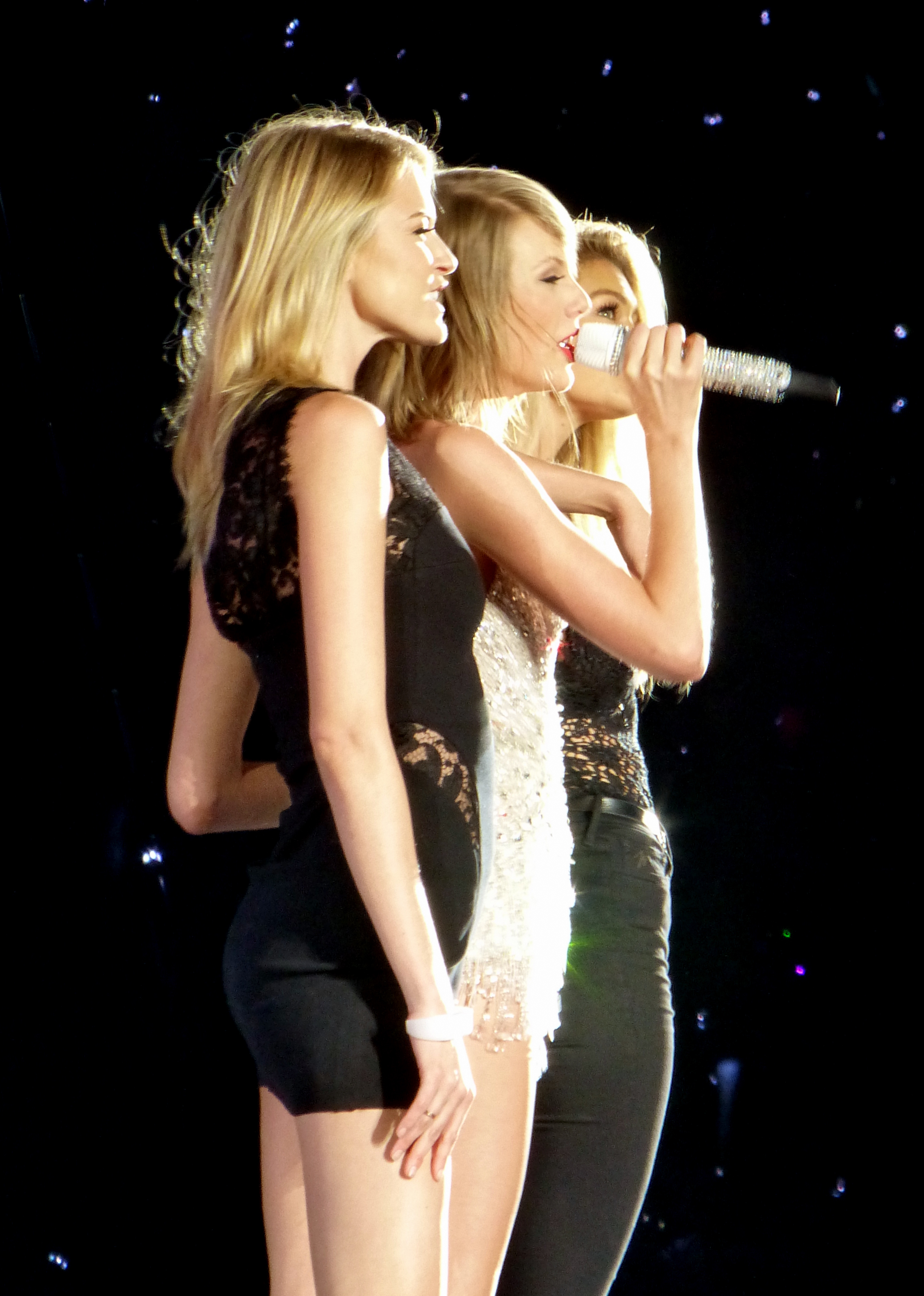 Martha Hunt and Gigi Hadid came out Taylor Swift 1989 Tour at Ford Field in Detroit, 5/30/15